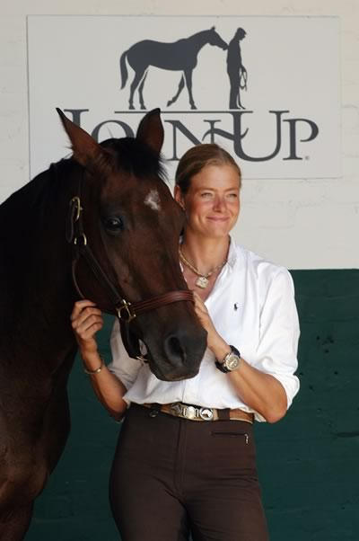 This is a picture of Andrea Kutsch, showing her and a horse.